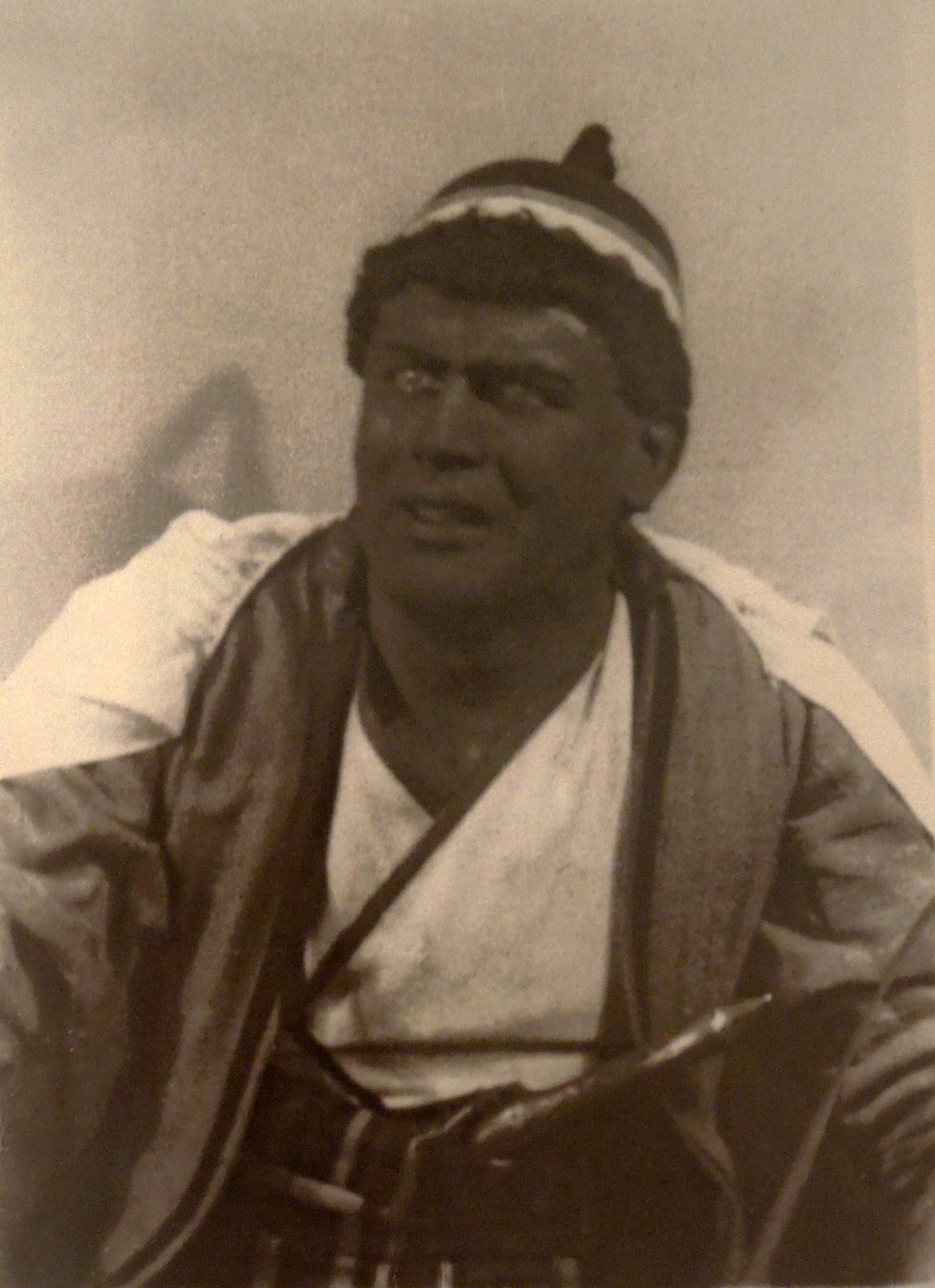 Václav Vydra performing Kabango in Fire Drum by Filippo Tommaso Marinetti, 1922, author unknown